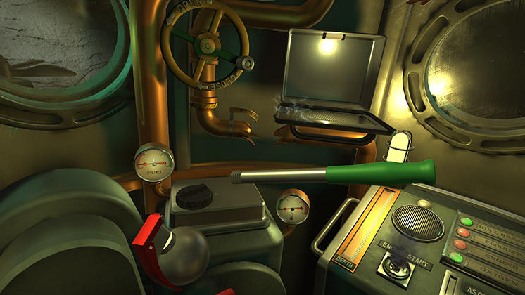 Screenshot of I Expect You to Die